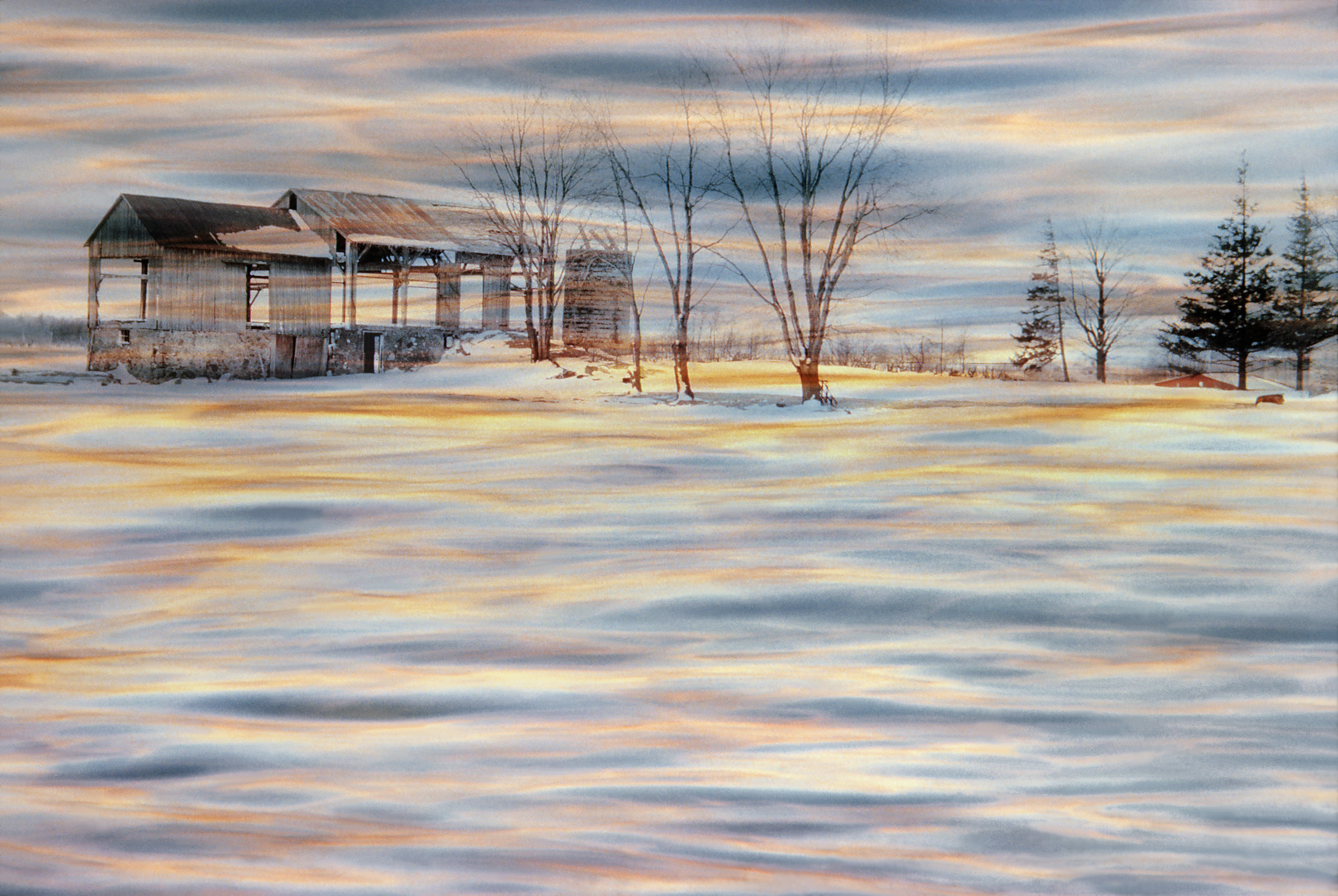 A film sandwich, made in 1976 by placing (1) a Kodachrome of a snowy farm on (2) a Kodachrome of late-afternoon sunlight on rippling water, and (3) photographing the "sandwich" in a lightbox.